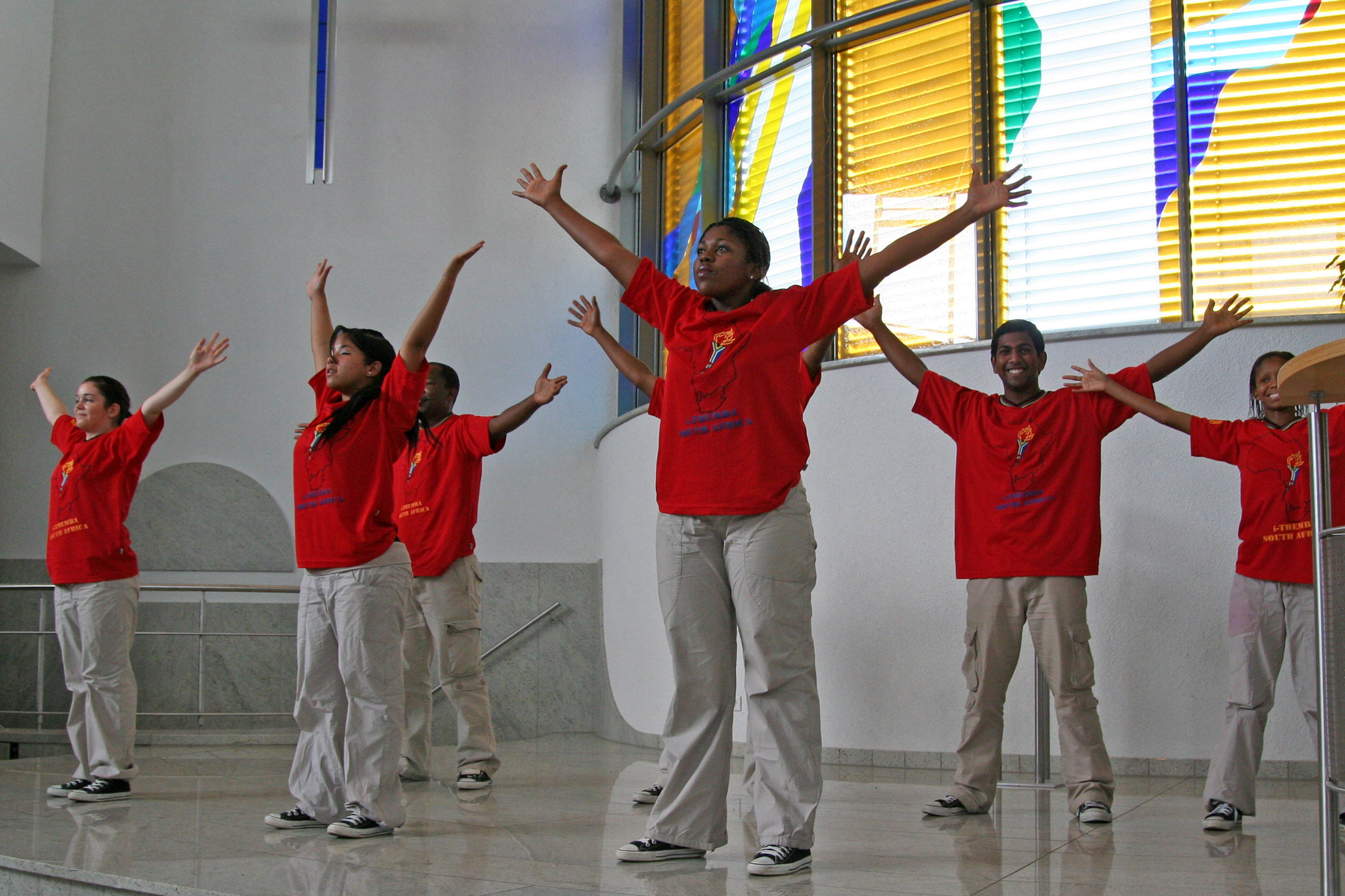 IThemba performs in the baptistchurch "Am Südring" in Nuremberg.